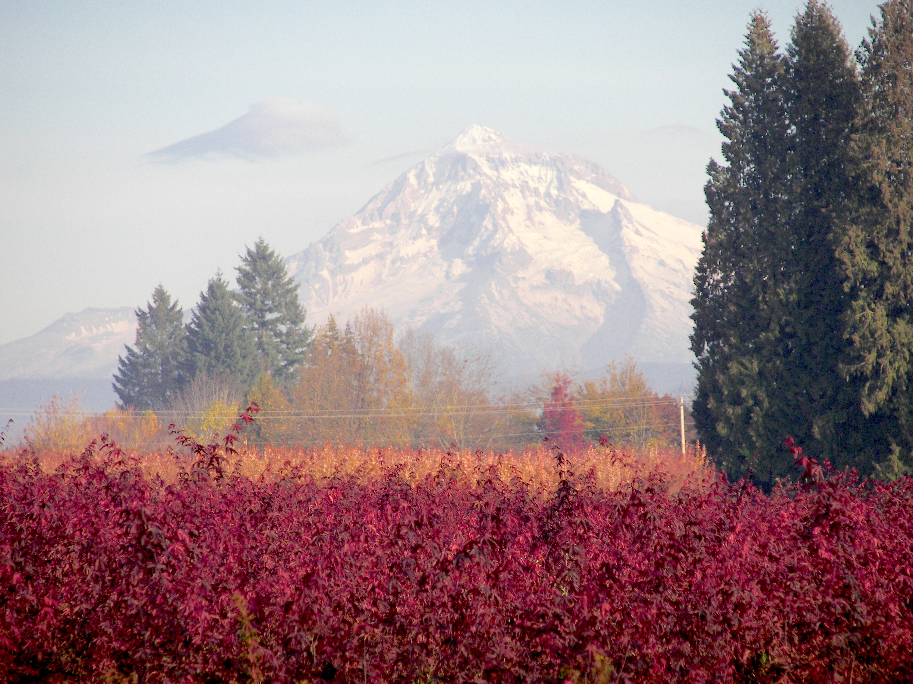 View of Mount Hood in Boring, Oregon, United States